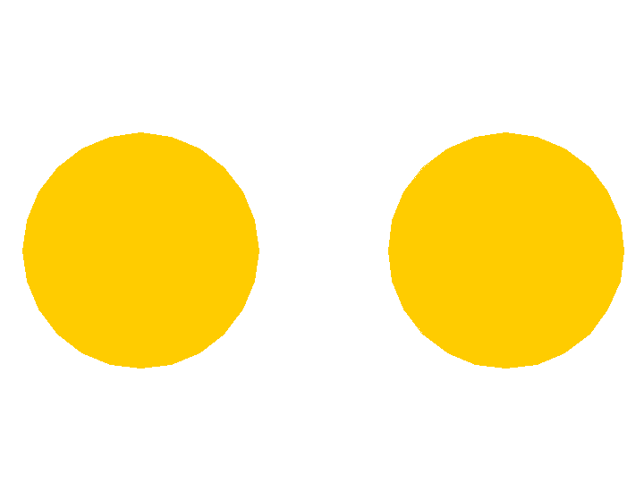 Mark of Ww2 GermanDivision Panzer 2 - 1939-1940